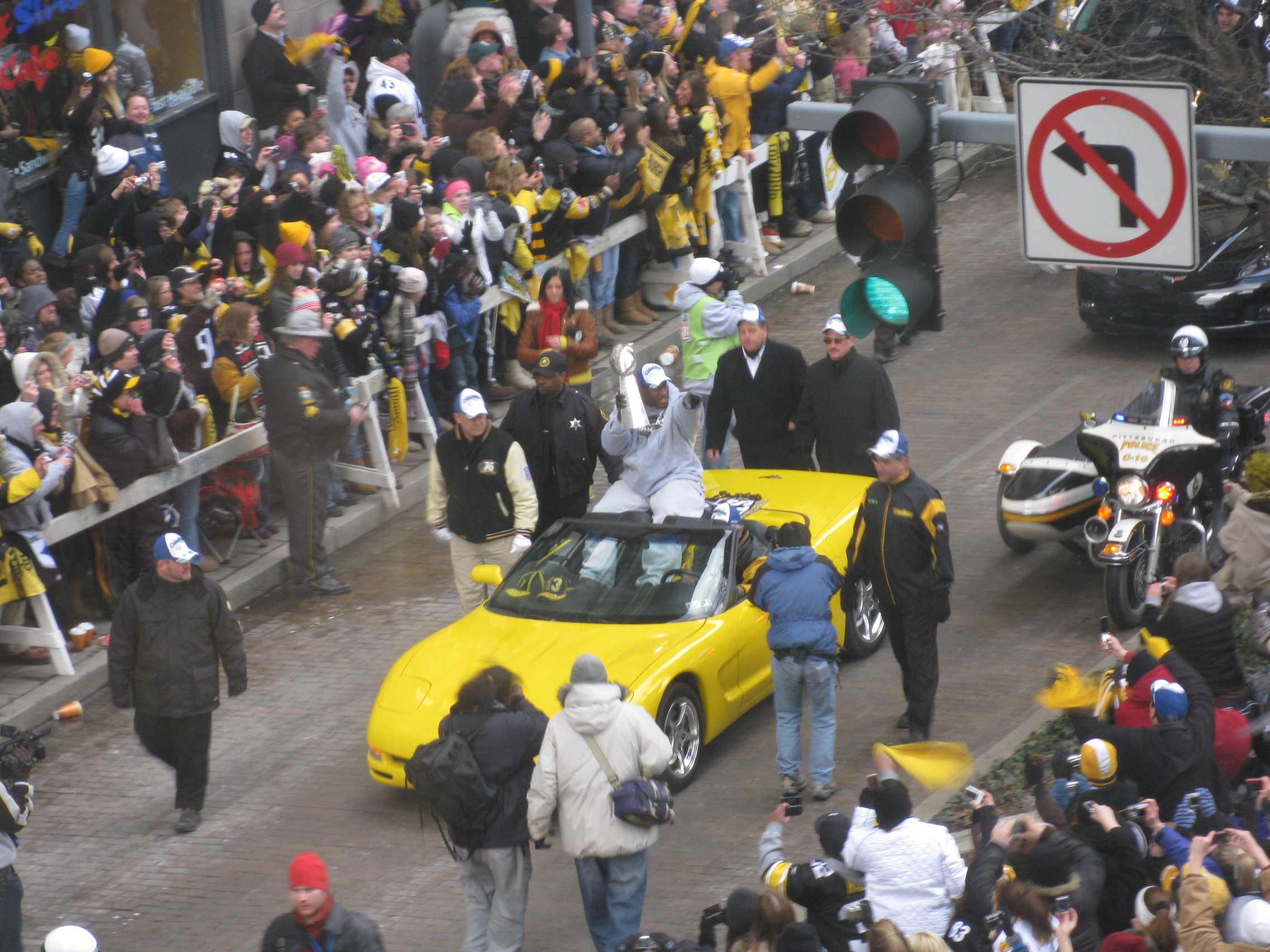 Pittsburgh Steelers Victory Parade on Grant Street, downtown Pittsburgh, following Super Bowl XLIII victory.